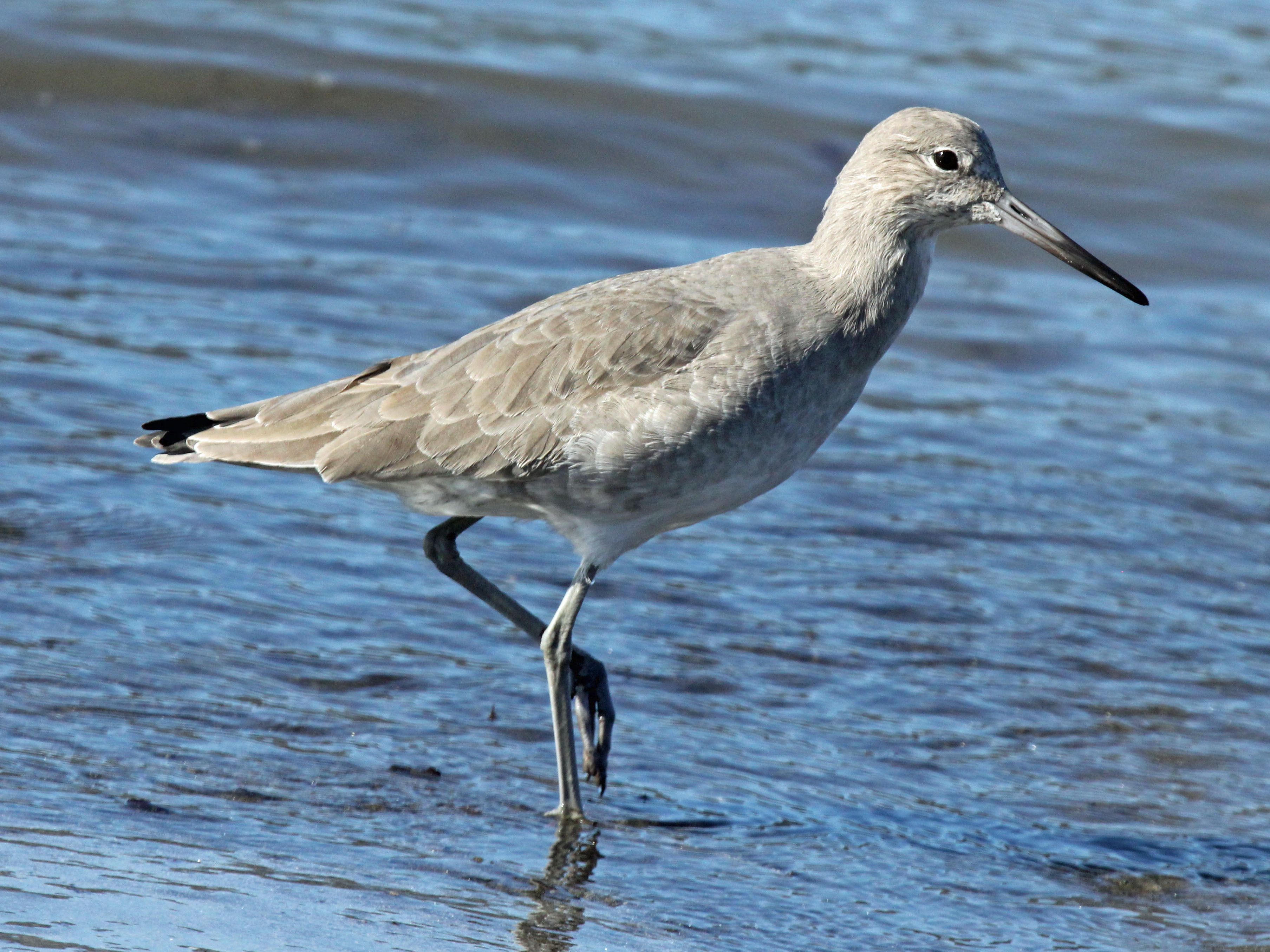 (Western) Willet (Tringa semipalmata inornata) - Half Moon Bay, California